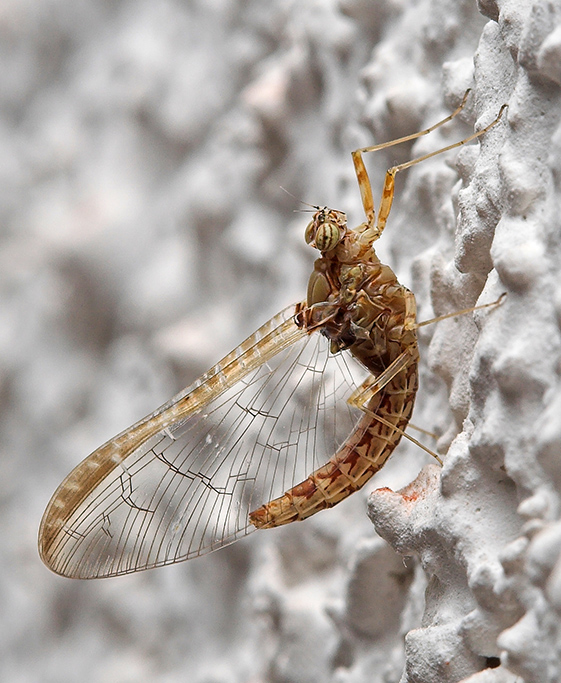 Mayfly on white wall